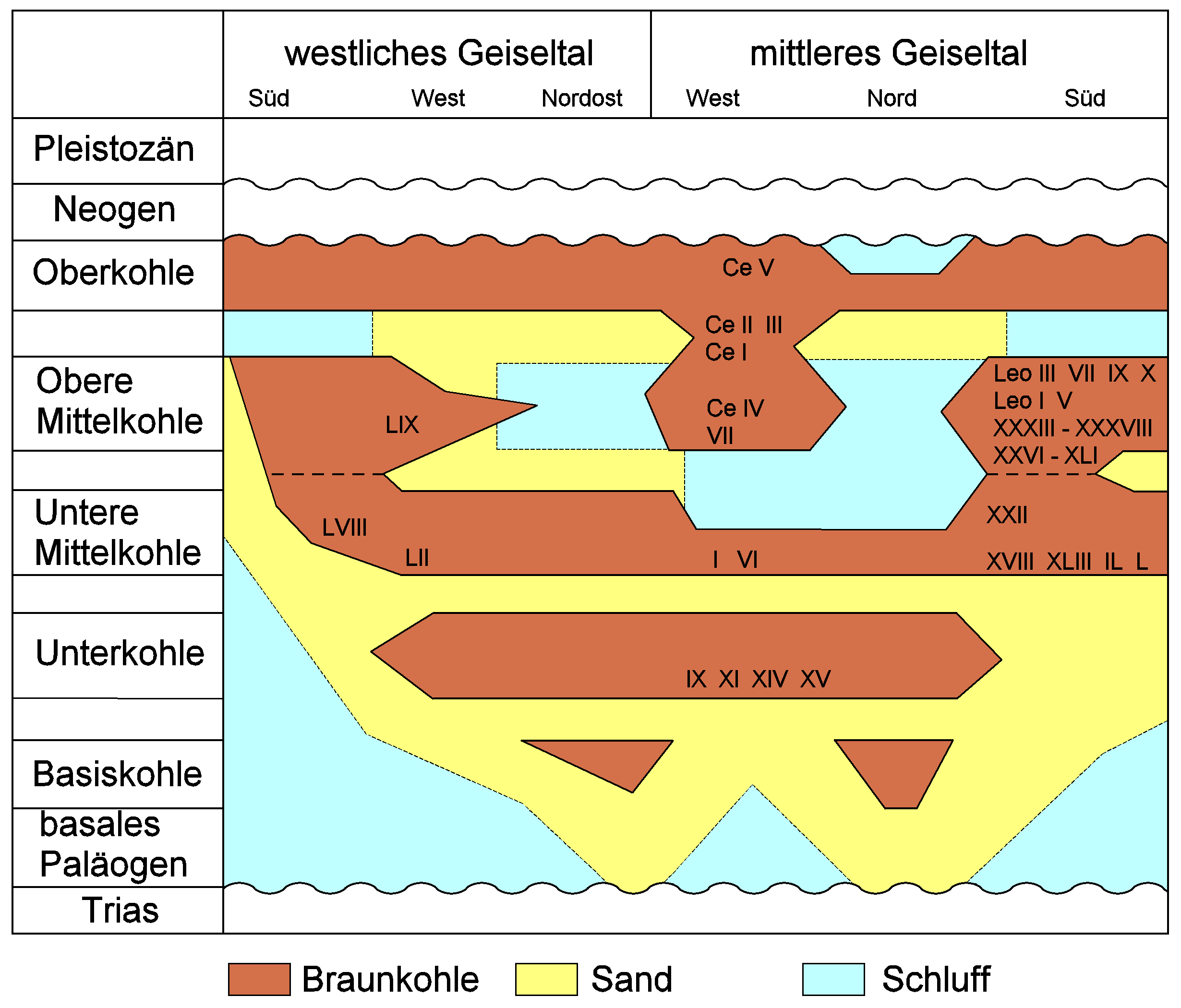 Stratigraphy of the vertebrate fossil sites of the Geiseltal area, after Haubold (1989).[1]